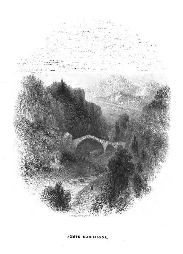 The Ponte della Maddalena in the province of Lucca, Italy. Illustration from The Solace of Song: Short Poems Suggested by Scenes Visited on a Continental Tour (1837).